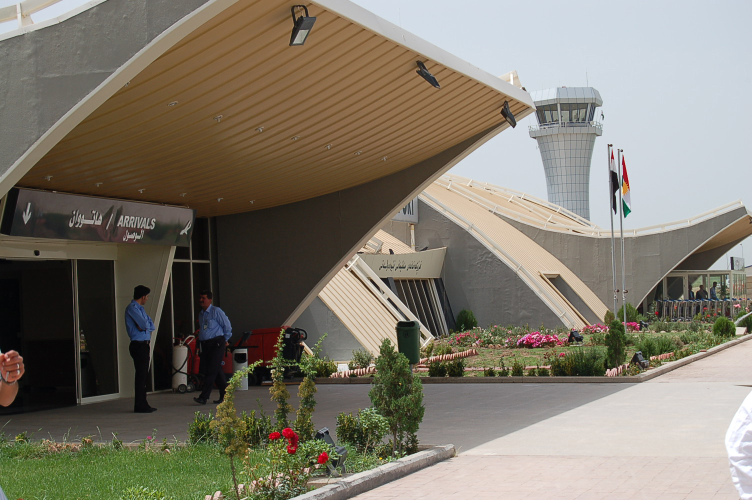 The Sulayamaniyah International Airport in Sulaymaniyah, Iraqi Kurdistan